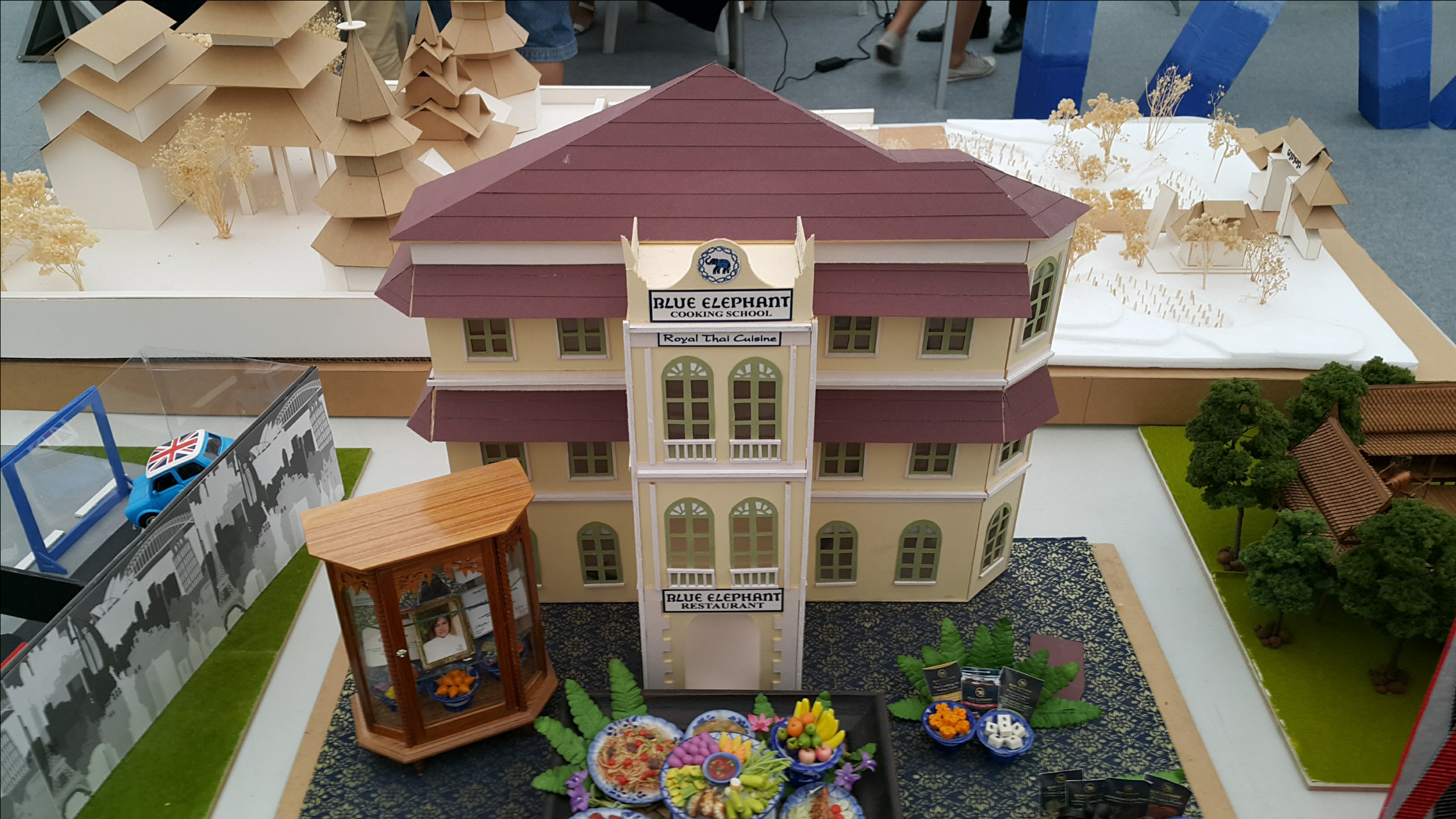 Miniature of Thai-Chinese Chamber historical building displayed as an exposition in Bangkok